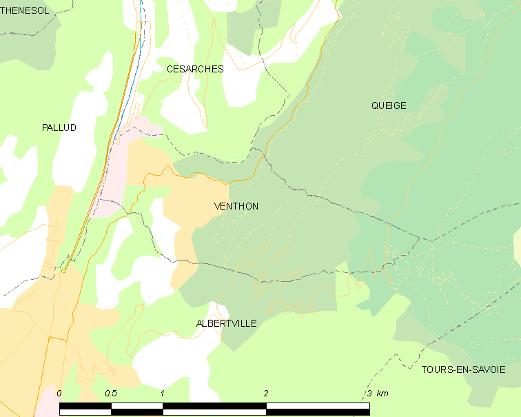 Map of French municipality Venthon